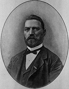 Association «Emil Tsindel»